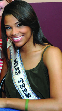 Miss Teen USA 2010 Kamie Crawford during a meet and greet at Café Bean at Lajes Field, Azores, May 28, 2011. United Service Organizations, Inc. sponsored the Miss USA and Miss Teen USA 2010 tour to various military bases.